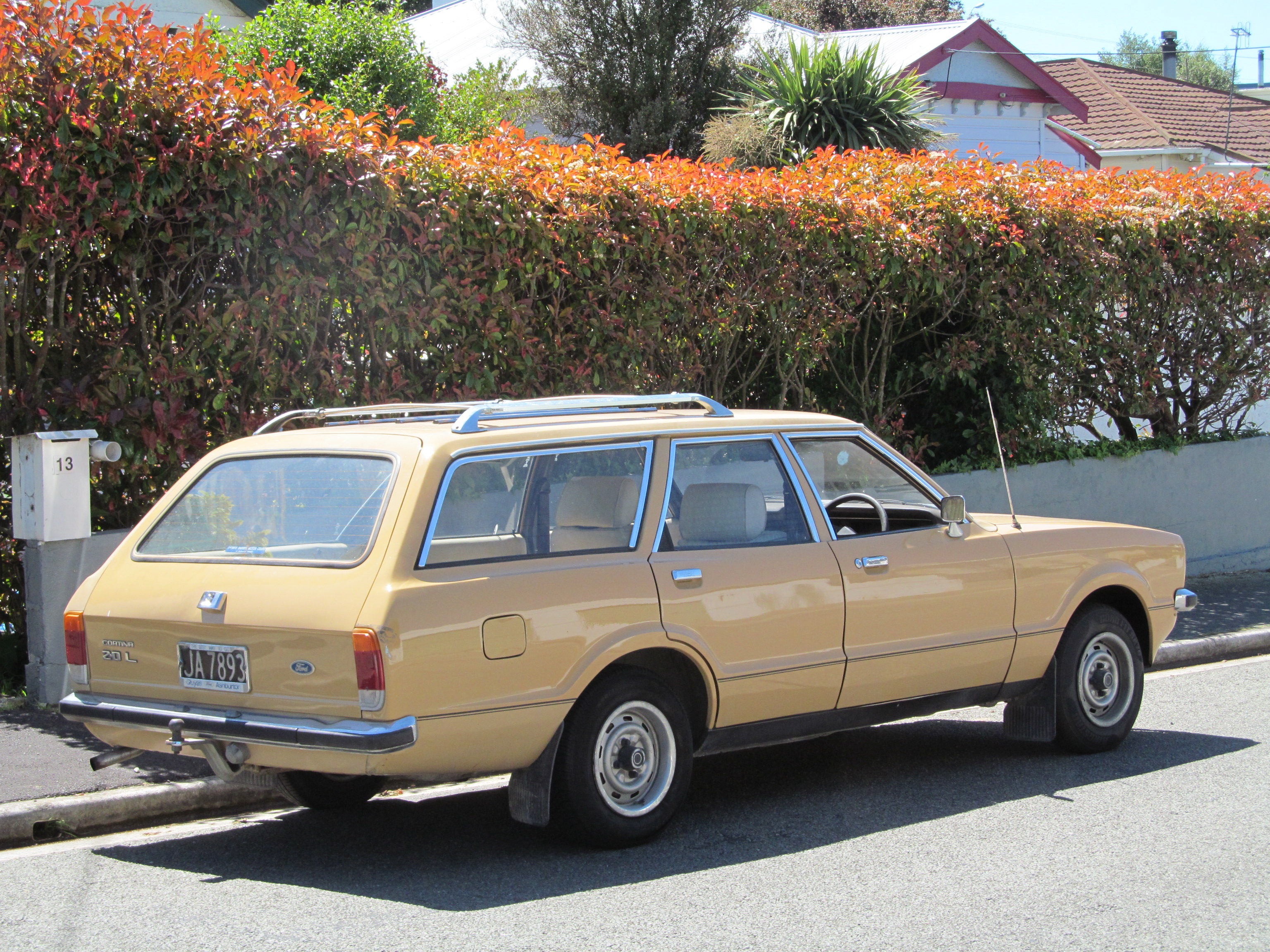 This thing really was mint! I wonder whether it was sold new in Timaru - quite likely given the condition and owner. However, in this shot you can see the rear seats are missing! Did these have folding rear seats??